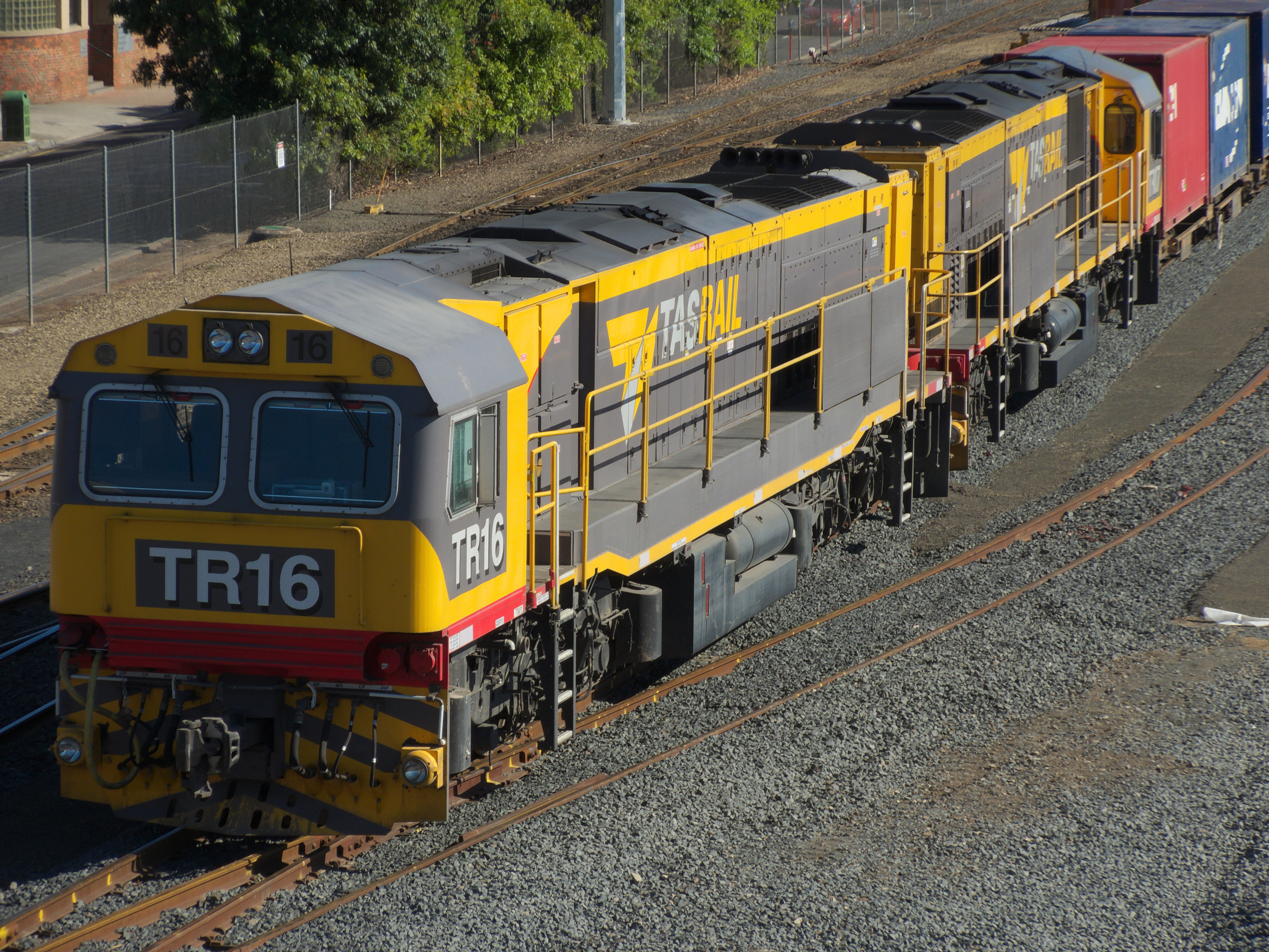 A couple of Tasrail TR class locomotives at the Port of Burnie, with TR16 in front. They were built by Progress Rail Services in the USA circa 2014. See also File:Tasrail-TR16-20160106-002.jpg.